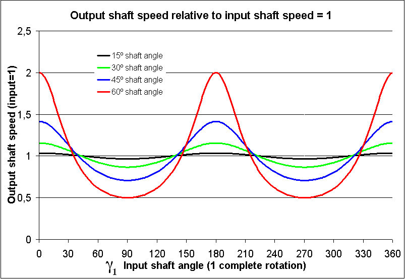 This is a replacement file for Image:Universal joint - output speed relative to input speed.png. It is the same image, but shifted 90 degrees in order to conform to the more detailed analysis presented.